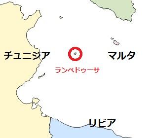 Lampedusa location map (japanese)